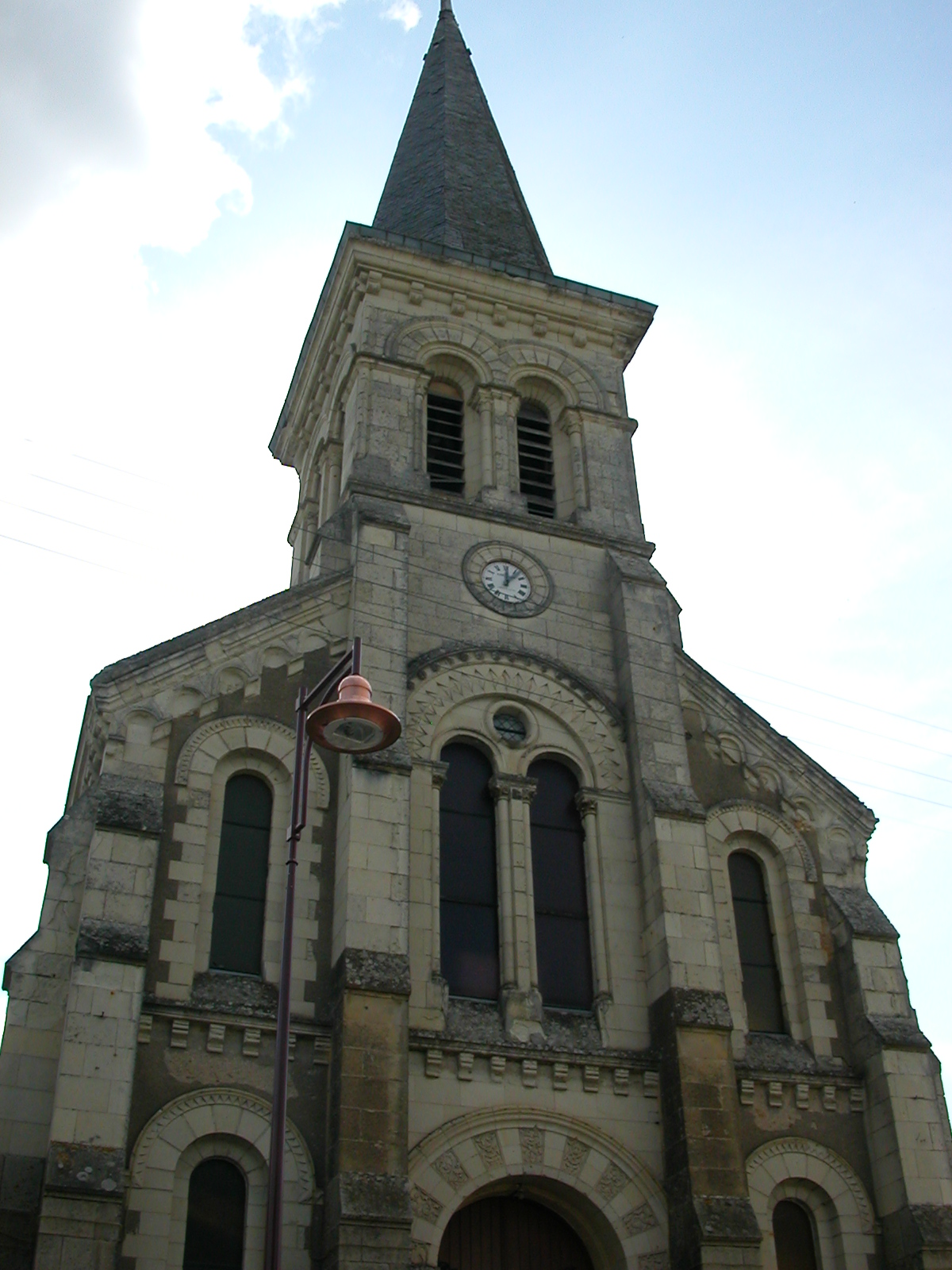 Church of Saint-Sauveur-de-Flée